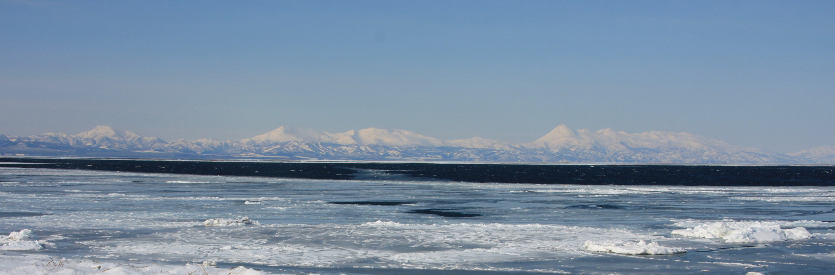 Shiretoko Mountains seen from SSE.